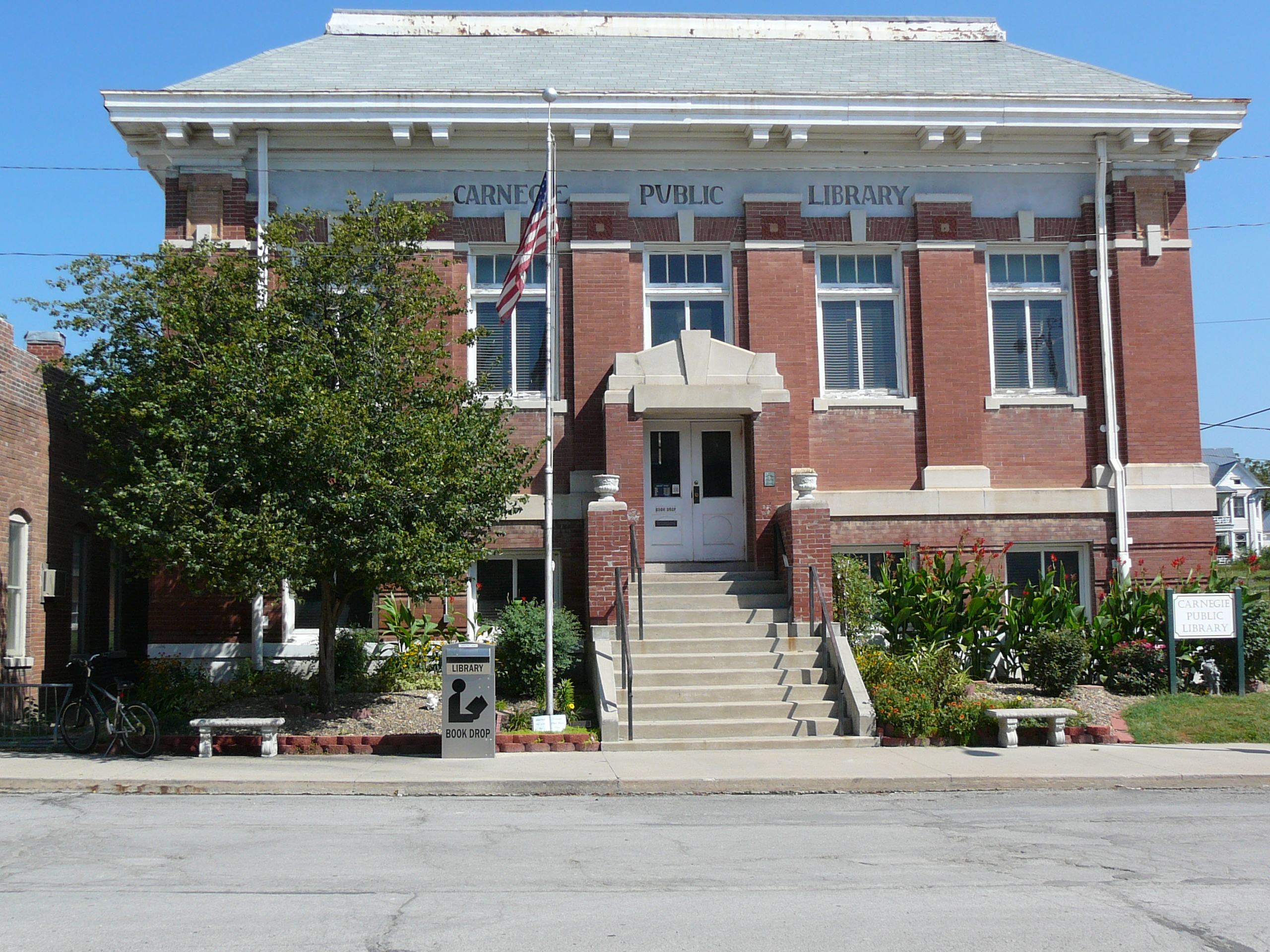 Carnegie libraries of Missouri; Albany, MO Public Library